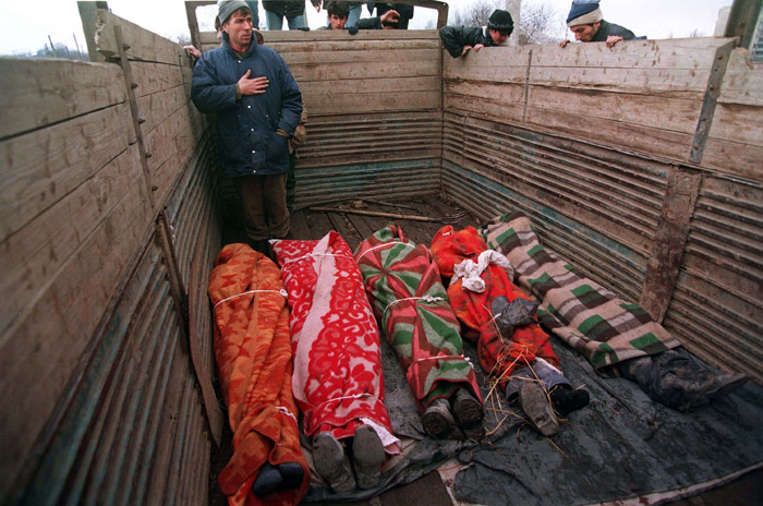 Chechens look at dead bodies wrapped in blankets in the back of a truck during the battle for Grozny, January 1995.